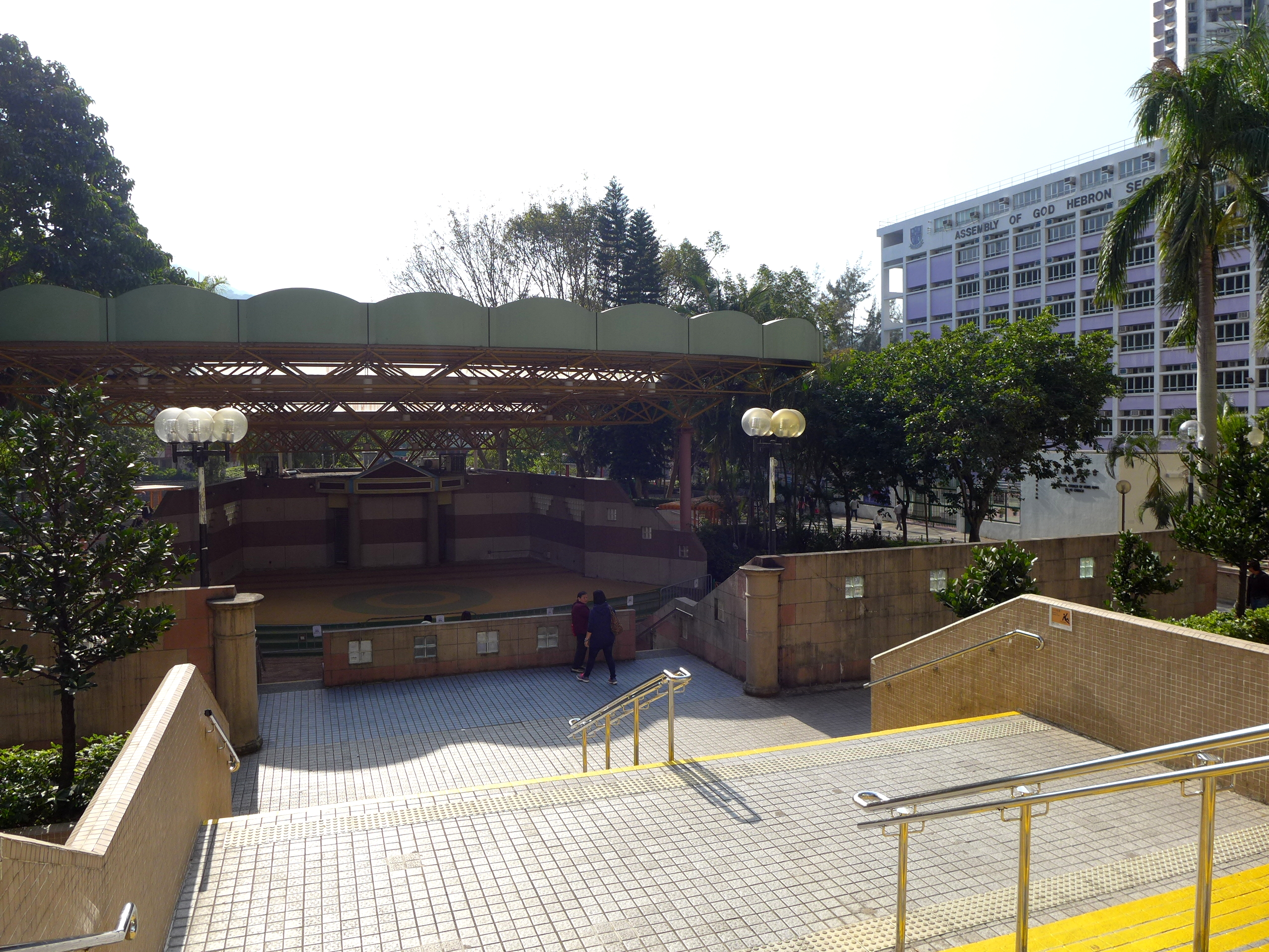 Tai Wo Estate Theatre